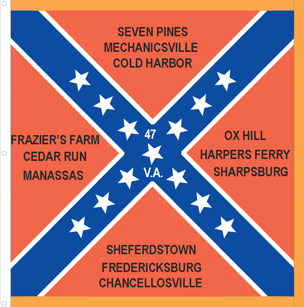 The 47 VA original regimental flag, captured in July 1863 at Falling Waters, MD, bore the battle honors: Seven Pines, Mechanicsville, Gaines’s Mill, and Frazier’s Farm in the Virginia Peninsula (summer 1862); Cedar Run, 2nd Manassas, and Ox Hill from late summer 1862; Harper’s Ferry, Sharpsburg, and Shepherdstown from fall 1862; and Fredericksburg, Chancellorsville, and Gettysburg from 1862-summer 1863.